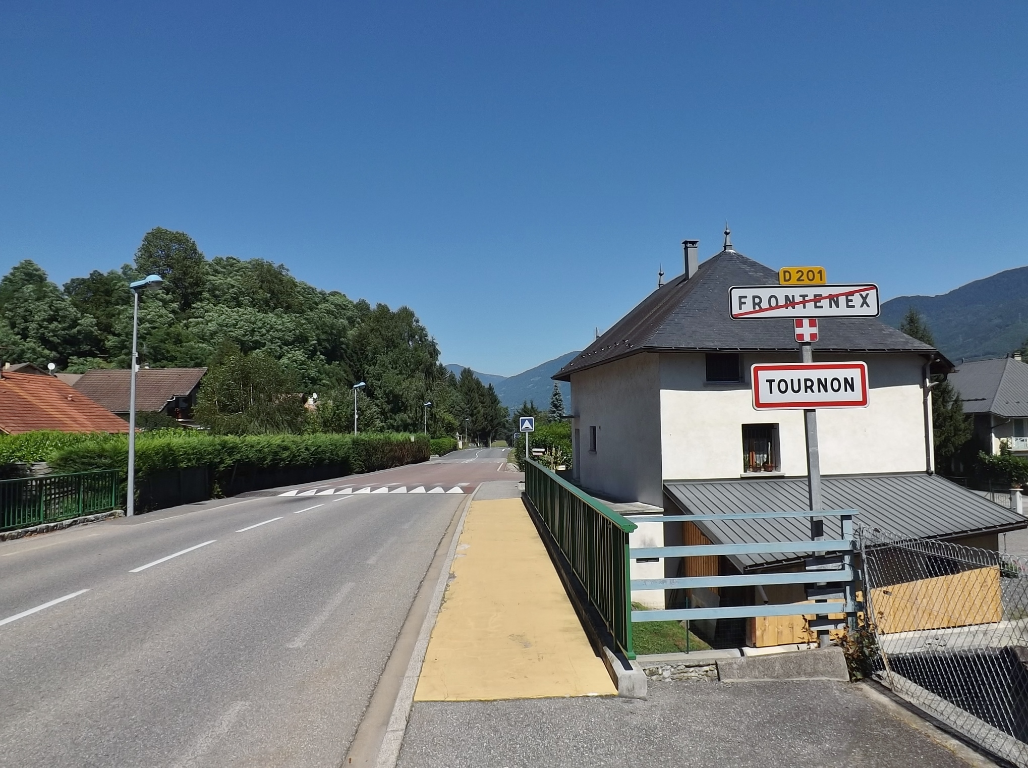 Sign welcoming to the French commune of Tournon between Chambéry and Albertville in Savoie.